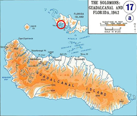 Derivativ work of File:Casta-MAP Guadalcanal.jpg showing Guadalcanal Island. Circle around Tulagi Island